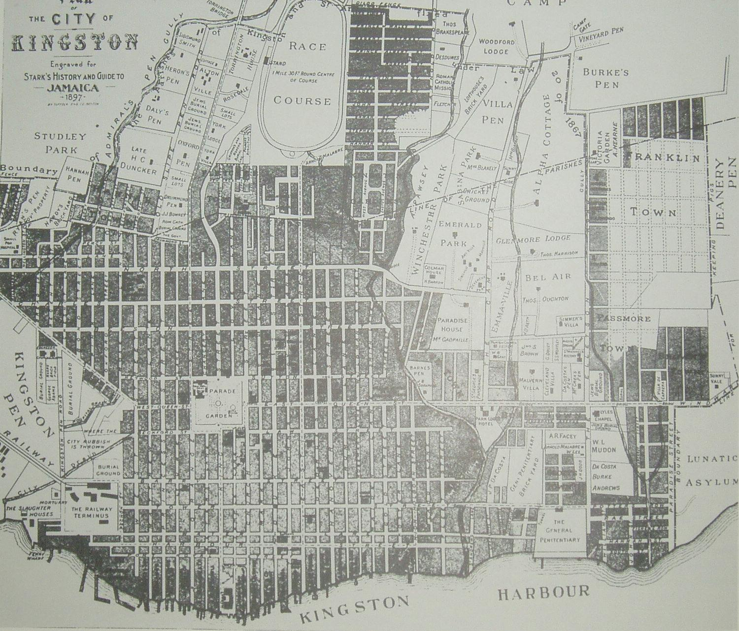 map of Kingston Jamaica in the 1890s